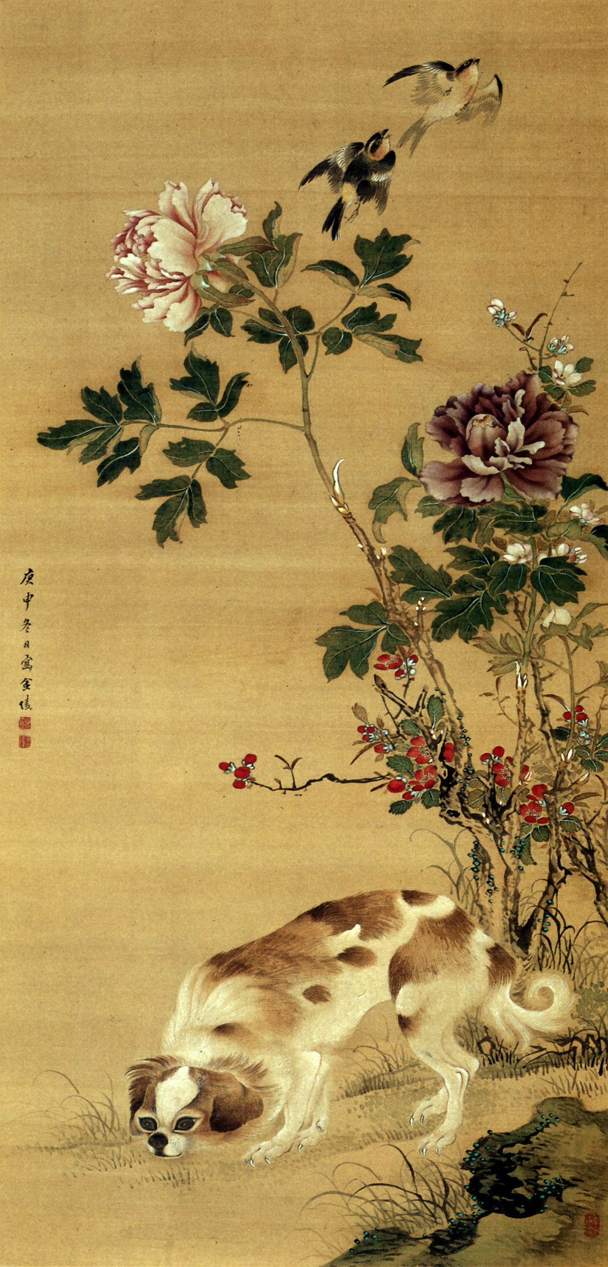 Kaneko_Kinryō,Dog_and_Peonies,A_hanging_scroll,Color_on_silk,Edo_period,dated_1800,The_Seikado_Bunko_Art_Museum.